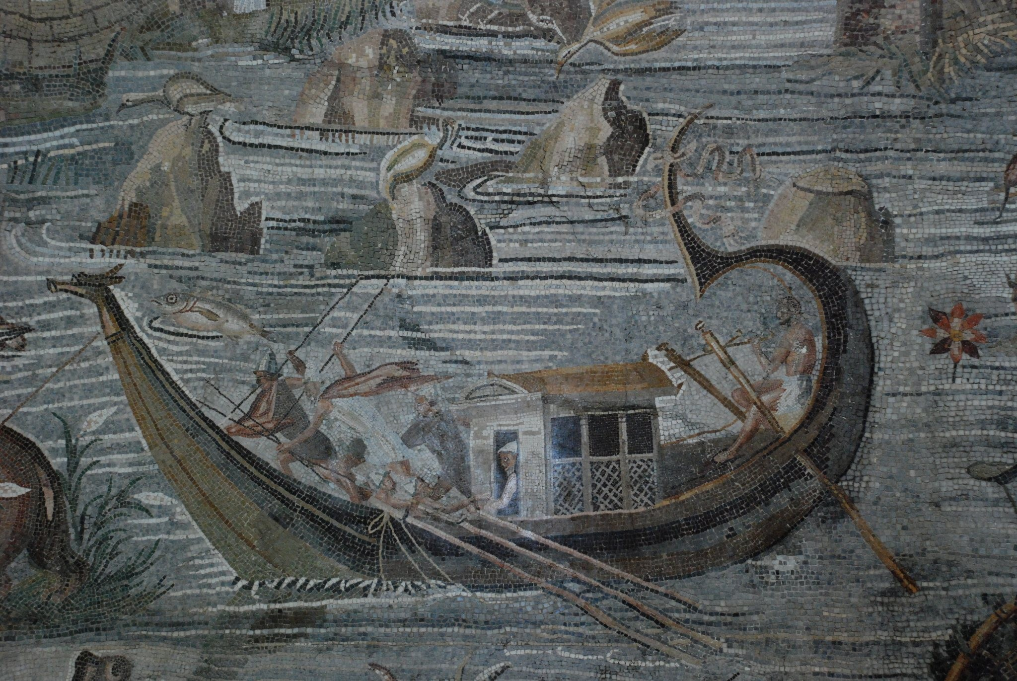 Detail of the Nile mosaic at the National Archeological Museum of Palestrina